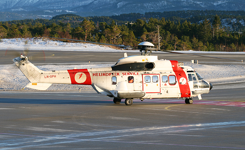 CHC Norway